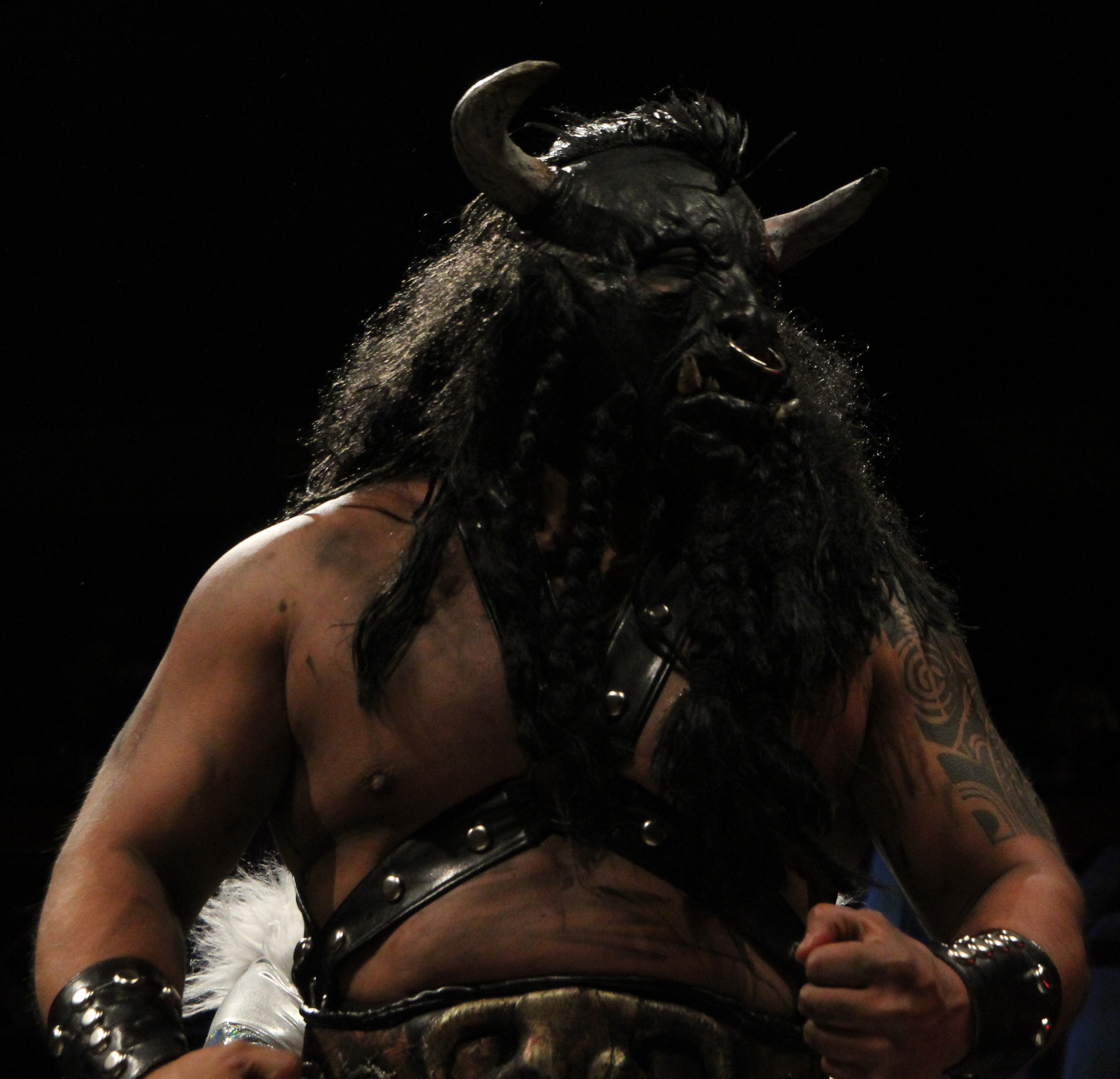 wXw 16 Carat Gold 2020 - Night 2